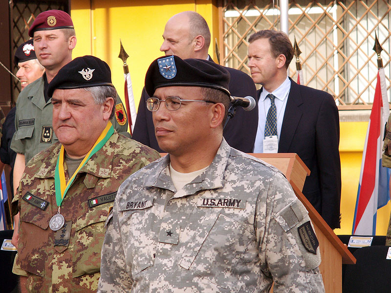 US Army Public Affairs photo of the Film City, Kosovo, installation ceremony marking the appointment of American Brigadier General Albert Bryant as Chief of Staff of the NATO Kosovo Force (KFOR). BG Bryant served as the highest ranking American official in the KFOR headquarters. Also pictured, Italian General Giuseppe Valotto, KFOR Commander.